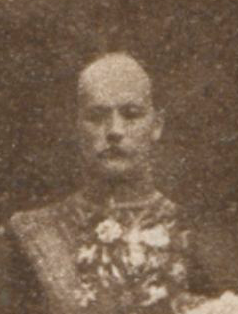 Comte de Saint-Aulaire, Freanch ambassador in Romania during the WWI